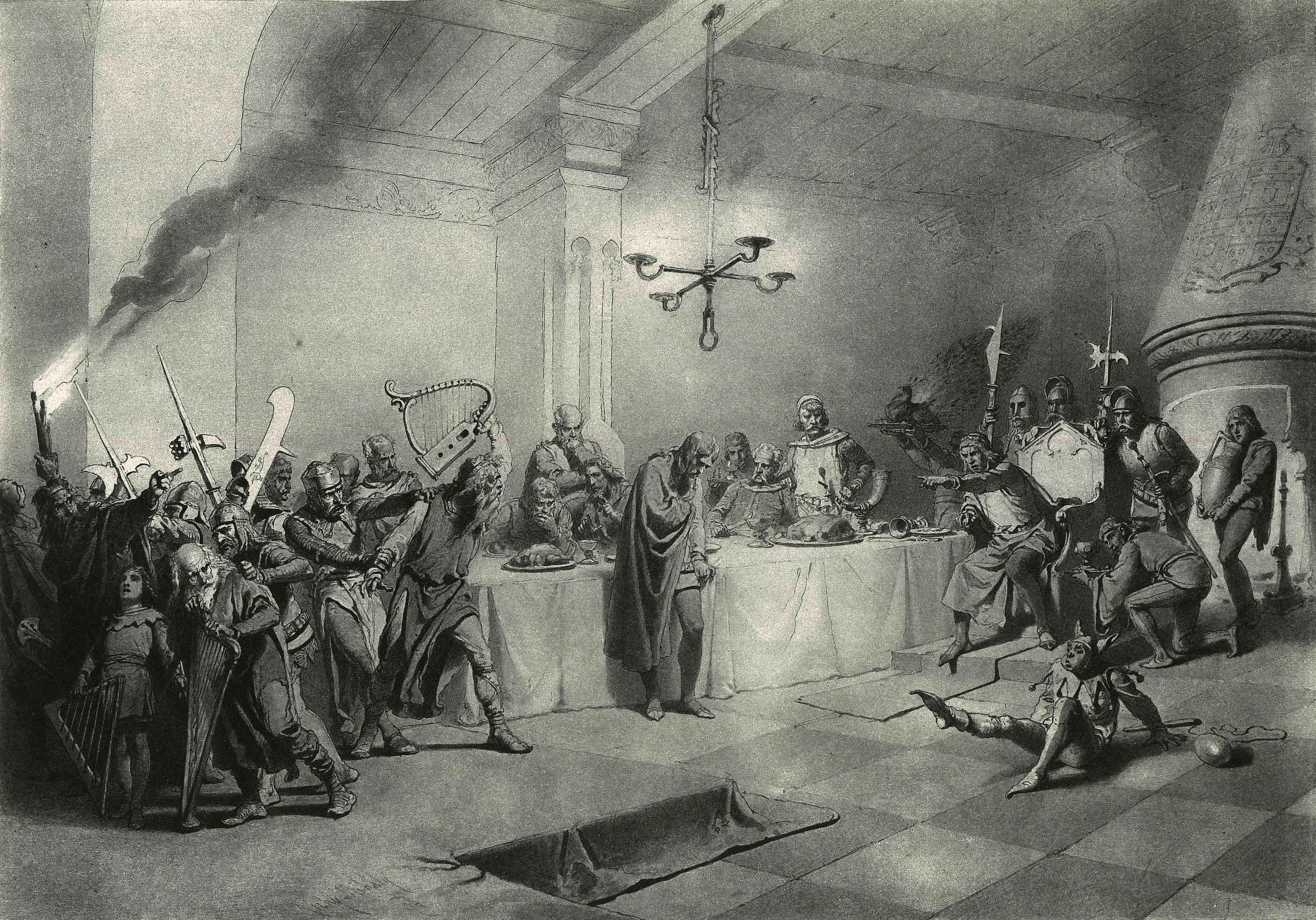 Illustrations to János Arany's ballads by Mihály Zichy See table of contents and more information about this book. Full page illustration of A walesi bárdok from page 47, cropped to show just the drawing and color adjusted.